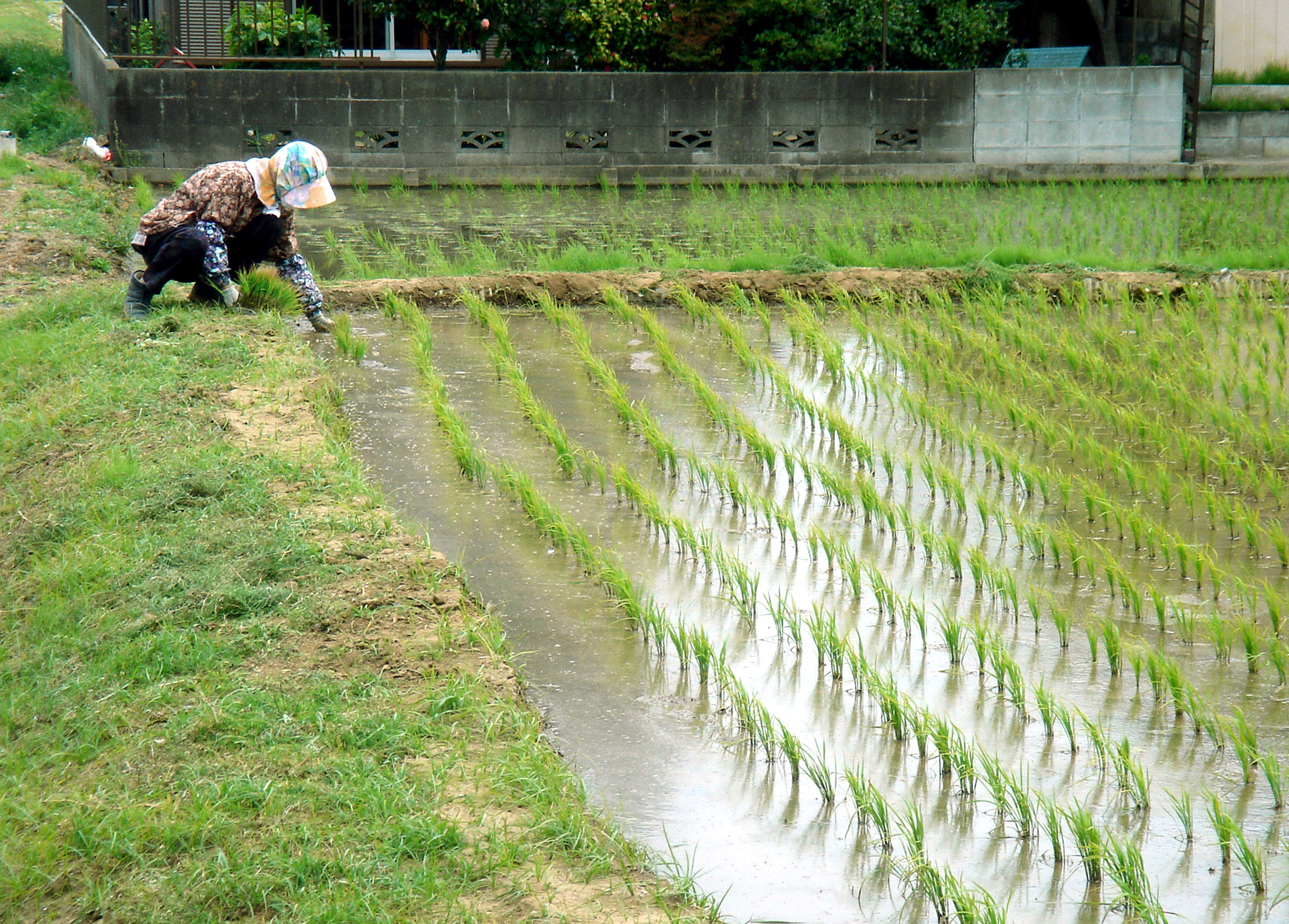 Working in the rice paddies in May in Sawara, Chiba, Japan.